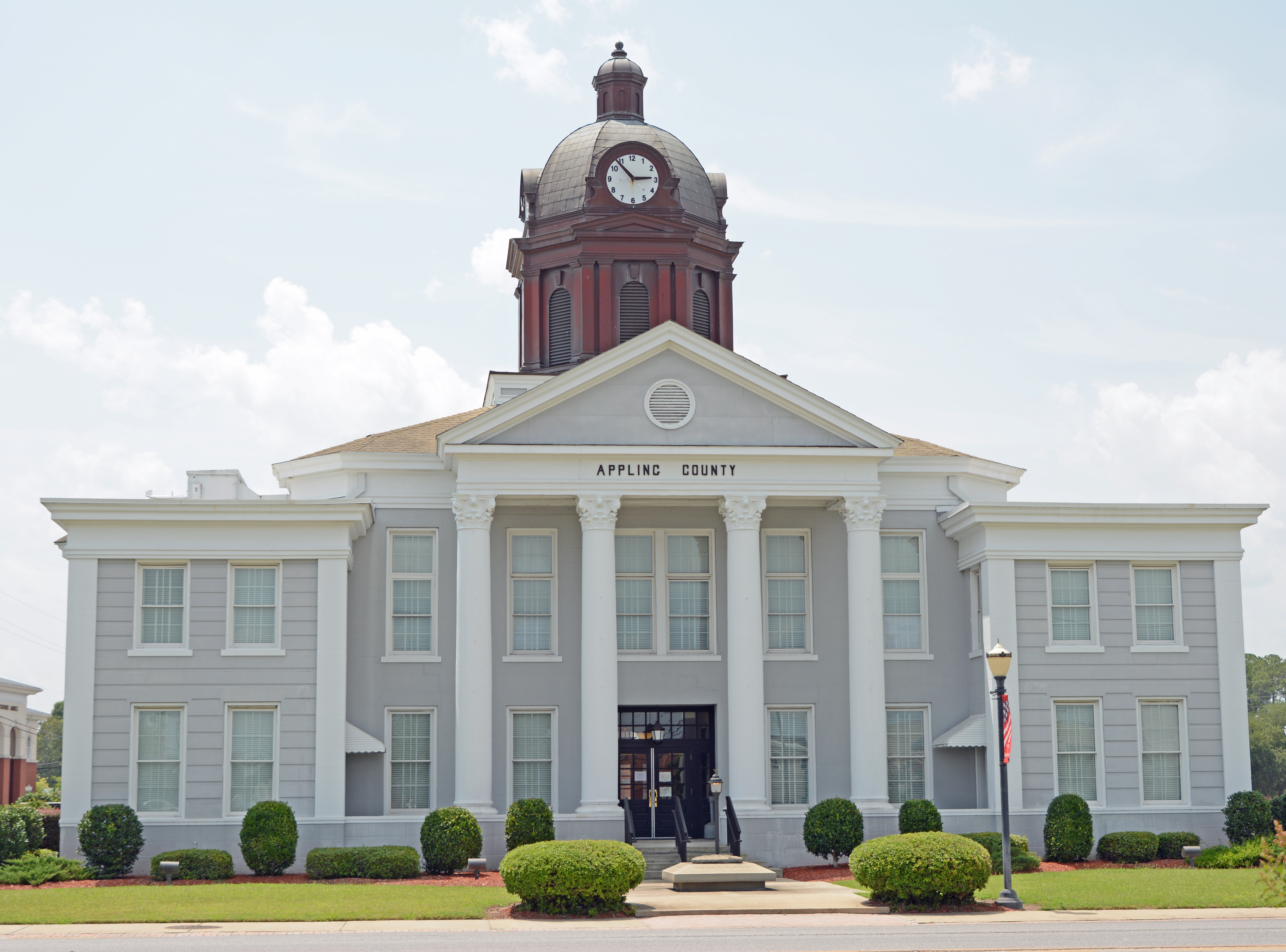 Appling County Courthouse east side, in Baxley, Georgia, US